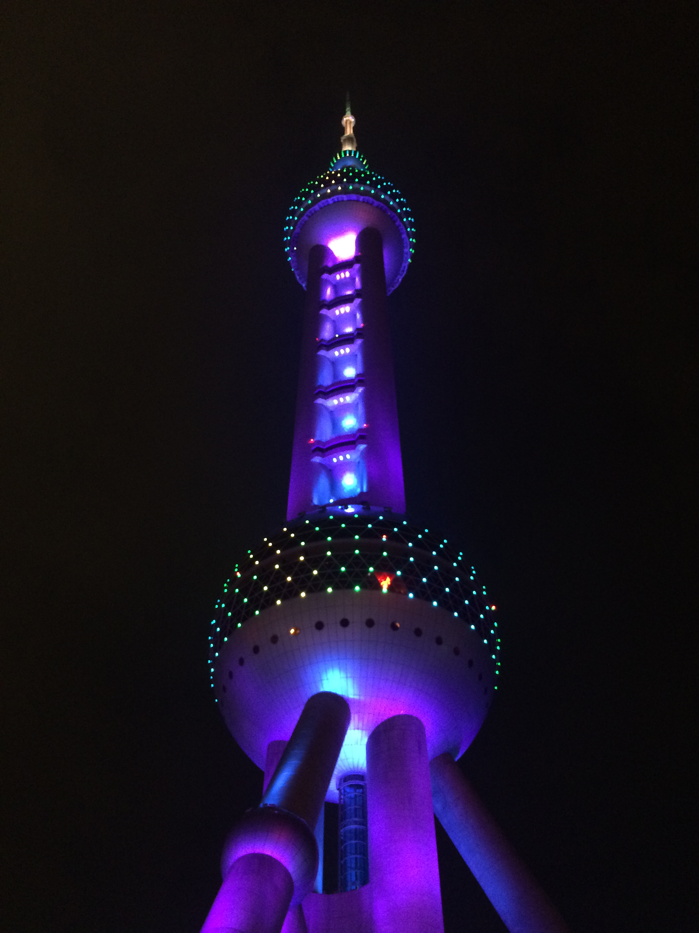 Oriental Pearl Tower at night